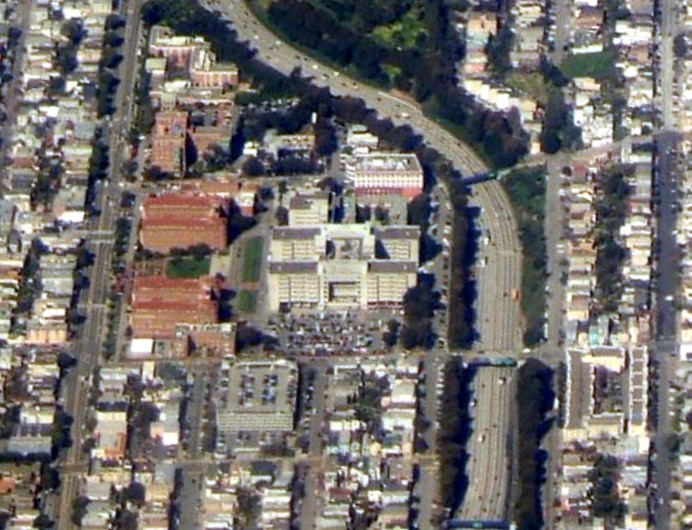 Aerial photograph of the San Francisco General Hospital.